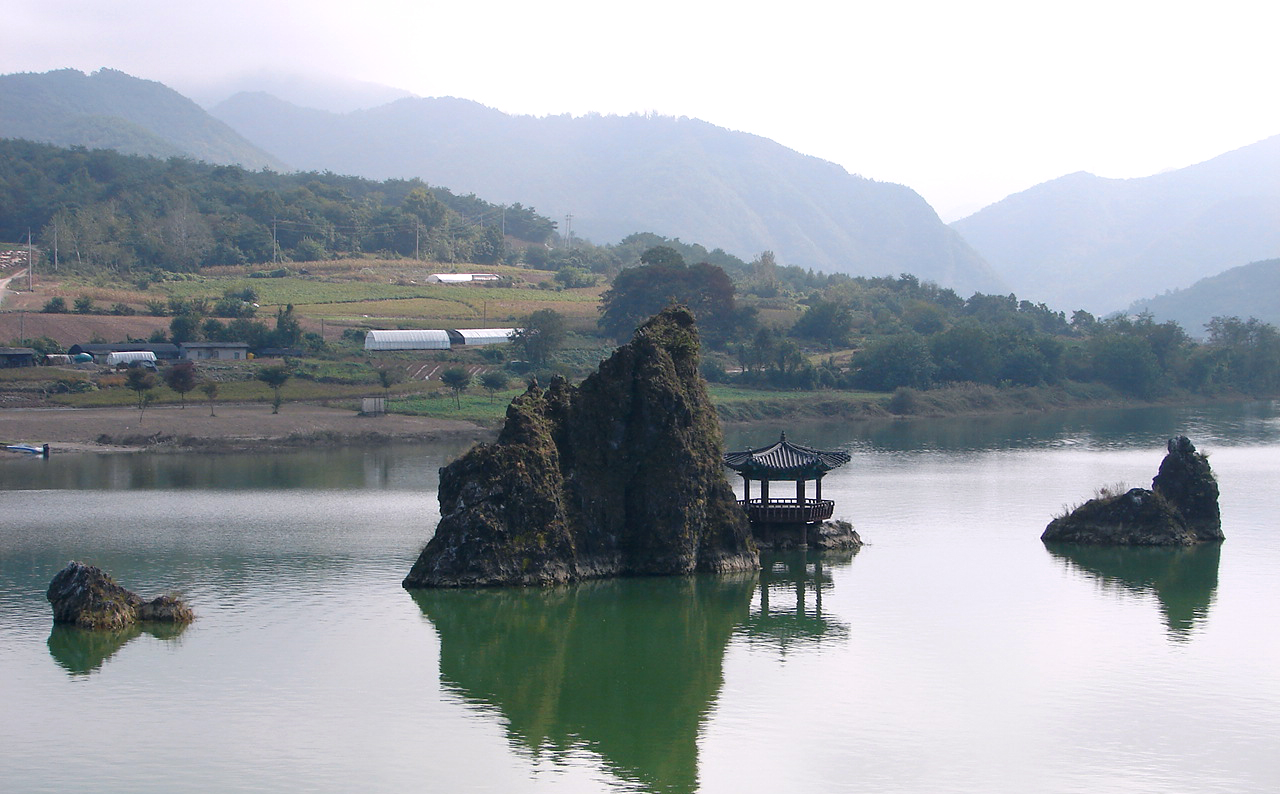 Dodam Sambong (3 Peak Island) represents the typical love triangle of ancient Korea: a husband, his wife and his mistress. The biggest peak, about 20 feet high with a pavilion on top, in the middle represents the husband, while the first smaller peak on one side of the husband is the wife. On the other side the smallest peak is the mistress. According to legend, the wife was not able to give birth to a son, so the husband found a mistress for a son. The wife was upset, which is why the wife peak is farther from the husband than the mistress. If you look at the wife from a specific angle and use a bit of imagination, you will see that the wife was so angry that she turned away from the husband.